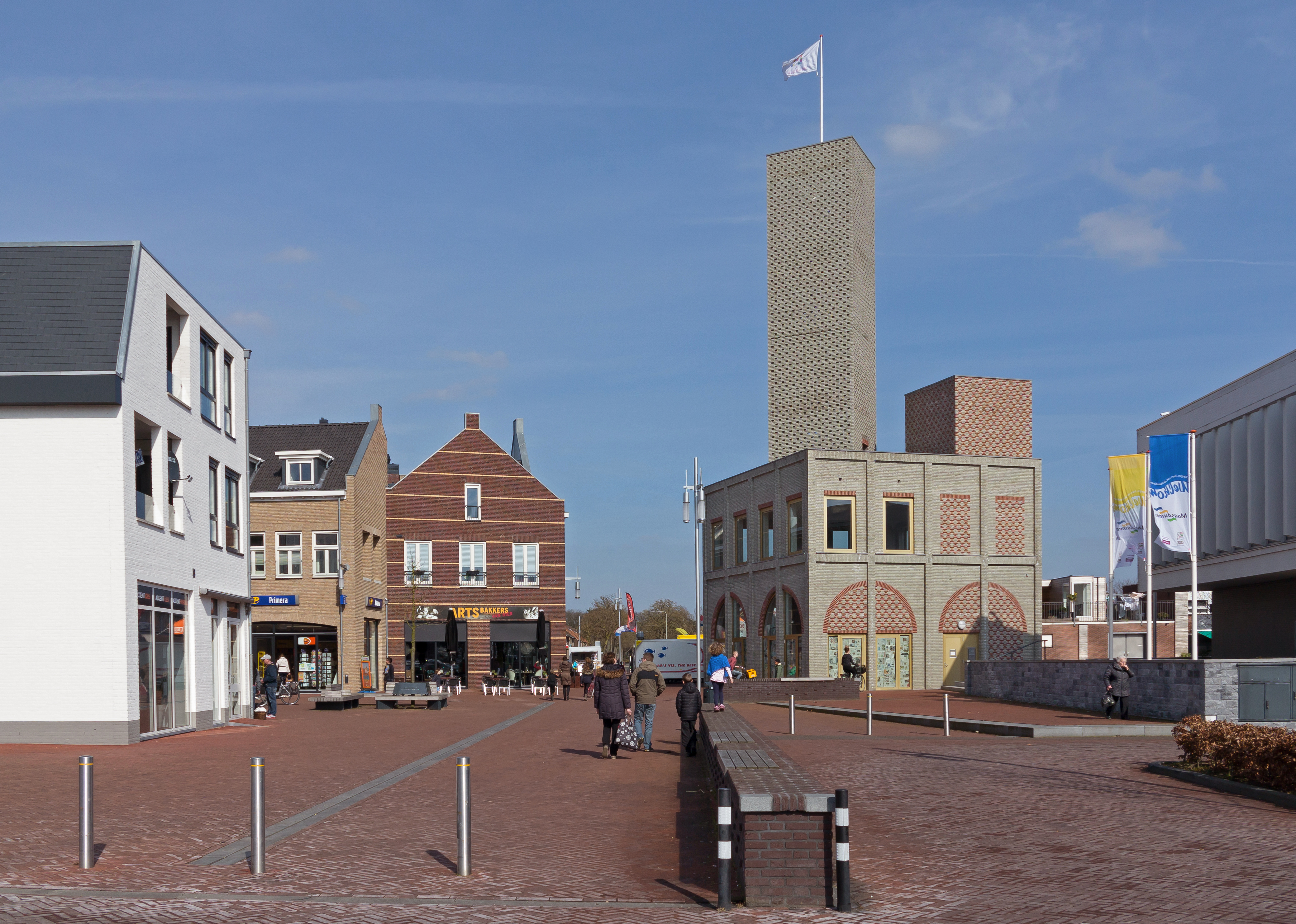 Nieuw-Bergen, artificial building at het Raadhuisplein